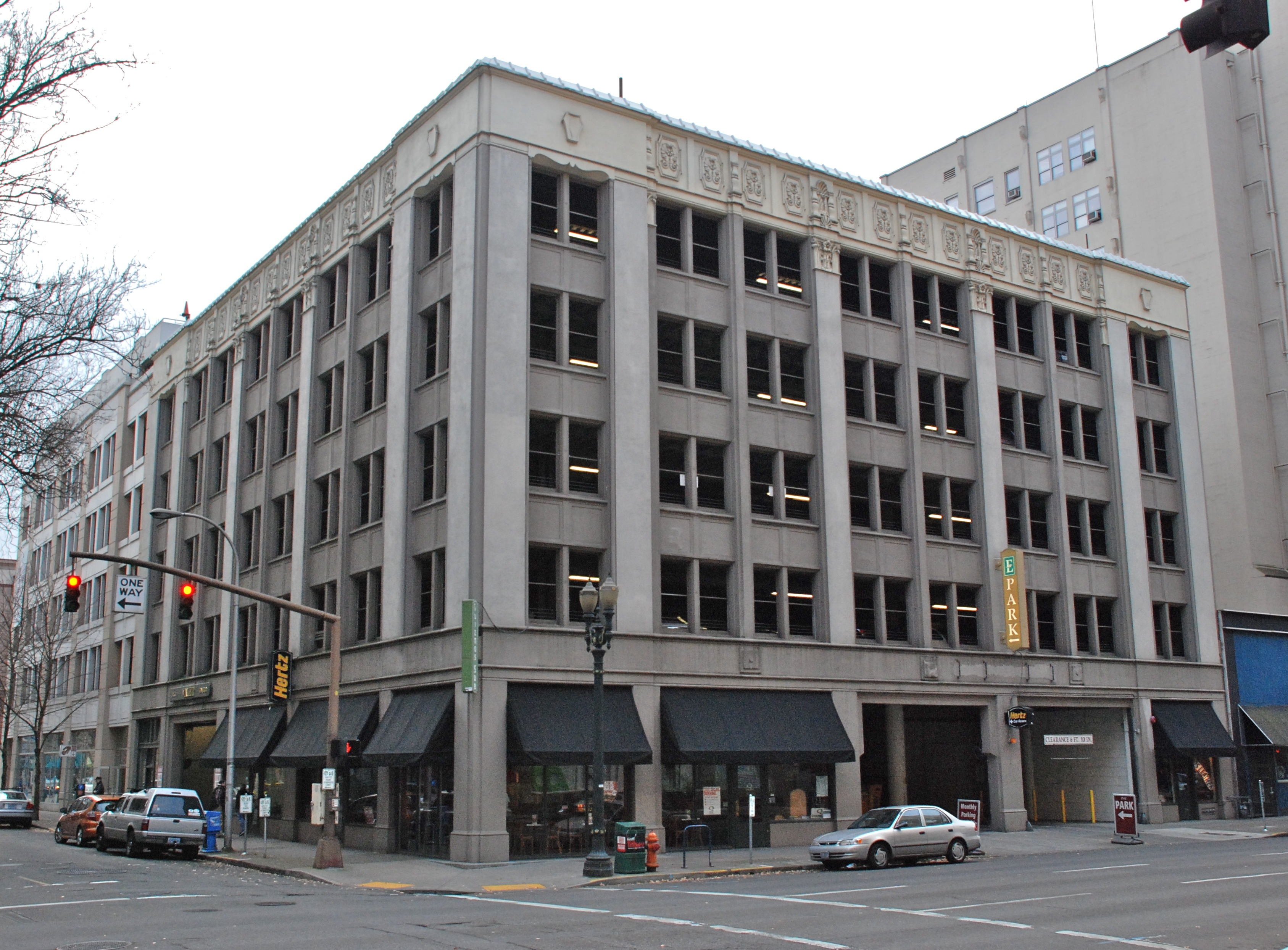 The Imperial Garage (built 1923), in Portland, Oregon, is listed on the U.S. National Register of Historic Places. It is located at the southeast corner of the intersection of 4th & Pine, in downtown.